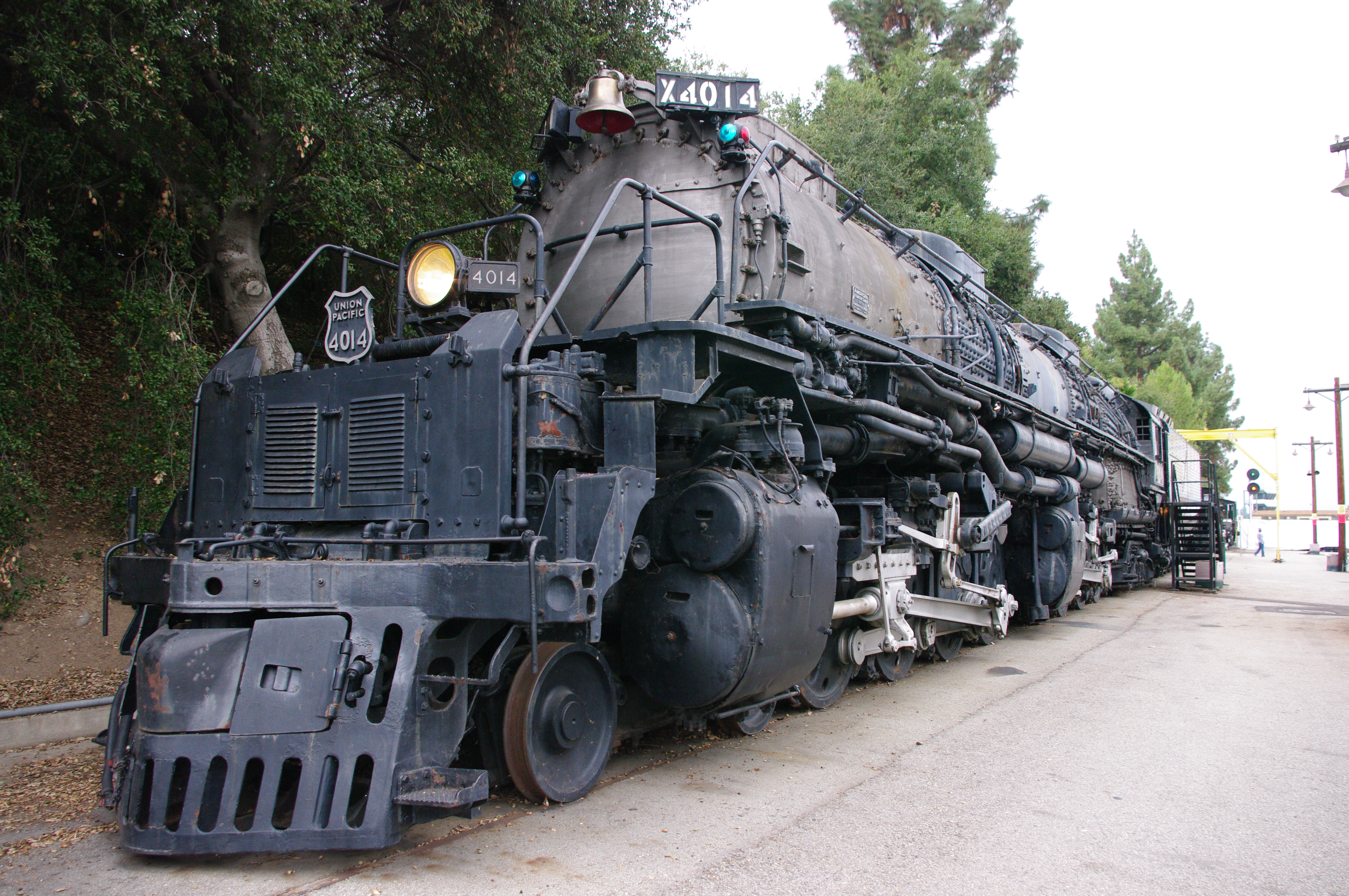 UP4014 had been on display at the Los Angeles County Fairgrounds Fairplex in Pomona since 1962. Now, after lengthy negotiations she has returned to UP for a full restoration in Cheyenne, to return to service pulling excursions around the country for UP. I sure hope one of those excursions will take her back near her adopted home of Pomona. I'd love to see (and hear) her in action. Current status info